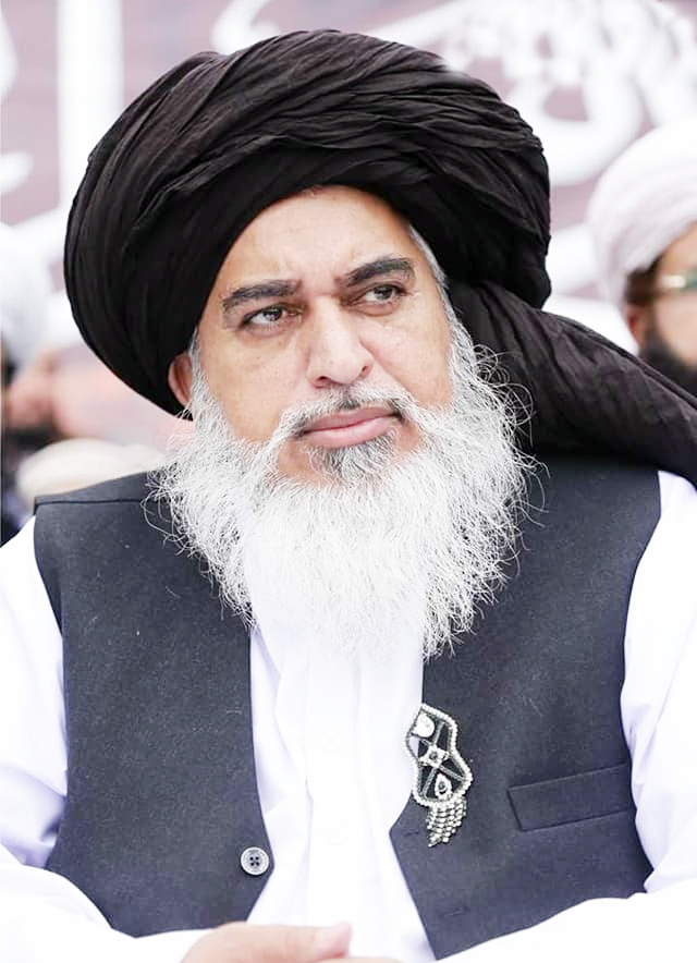 Ameer ul Mujahideen, Ustaad ul Ulama